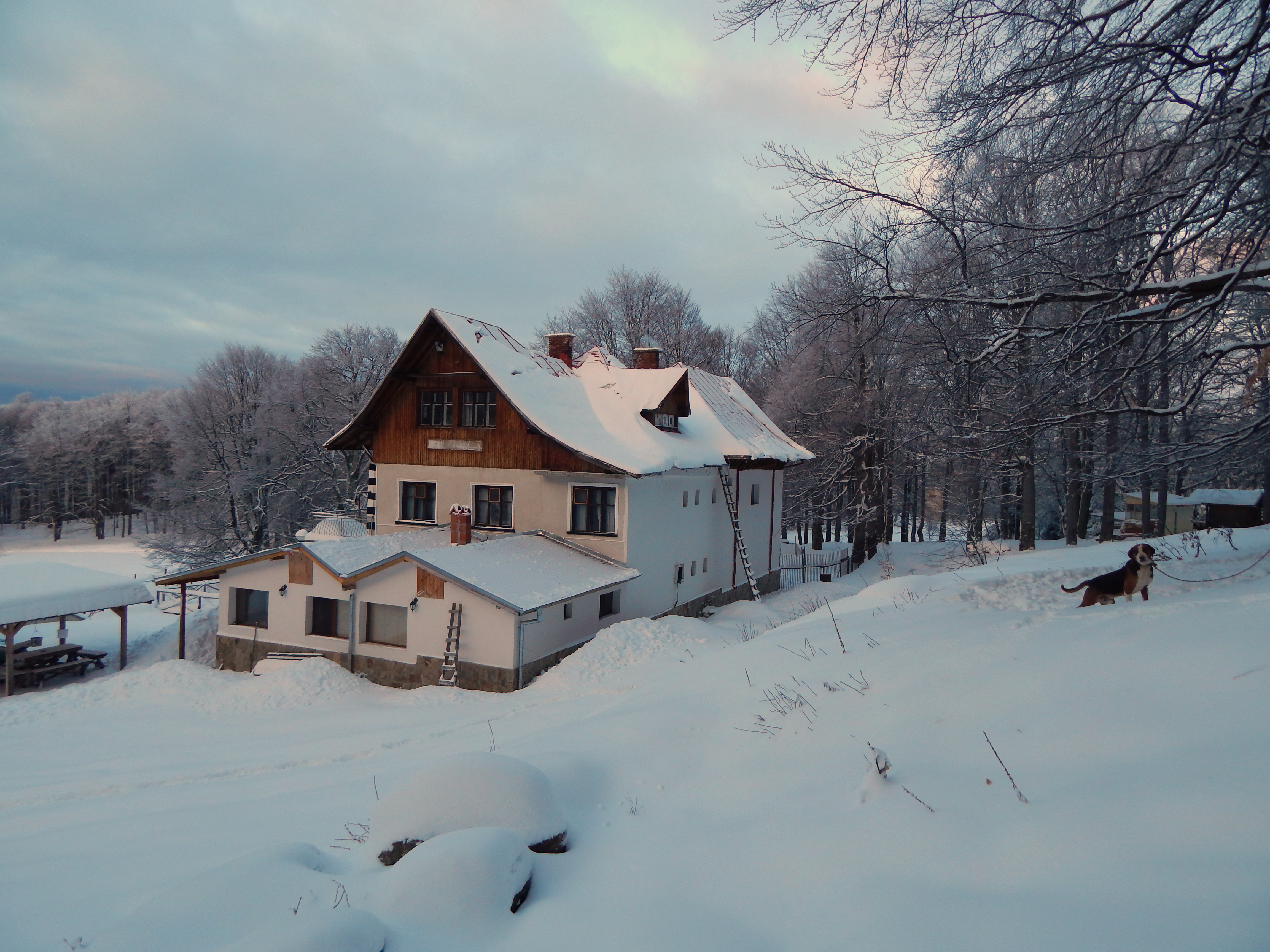 Srednogorets hut in Bogdan Reserve, Bulgaria